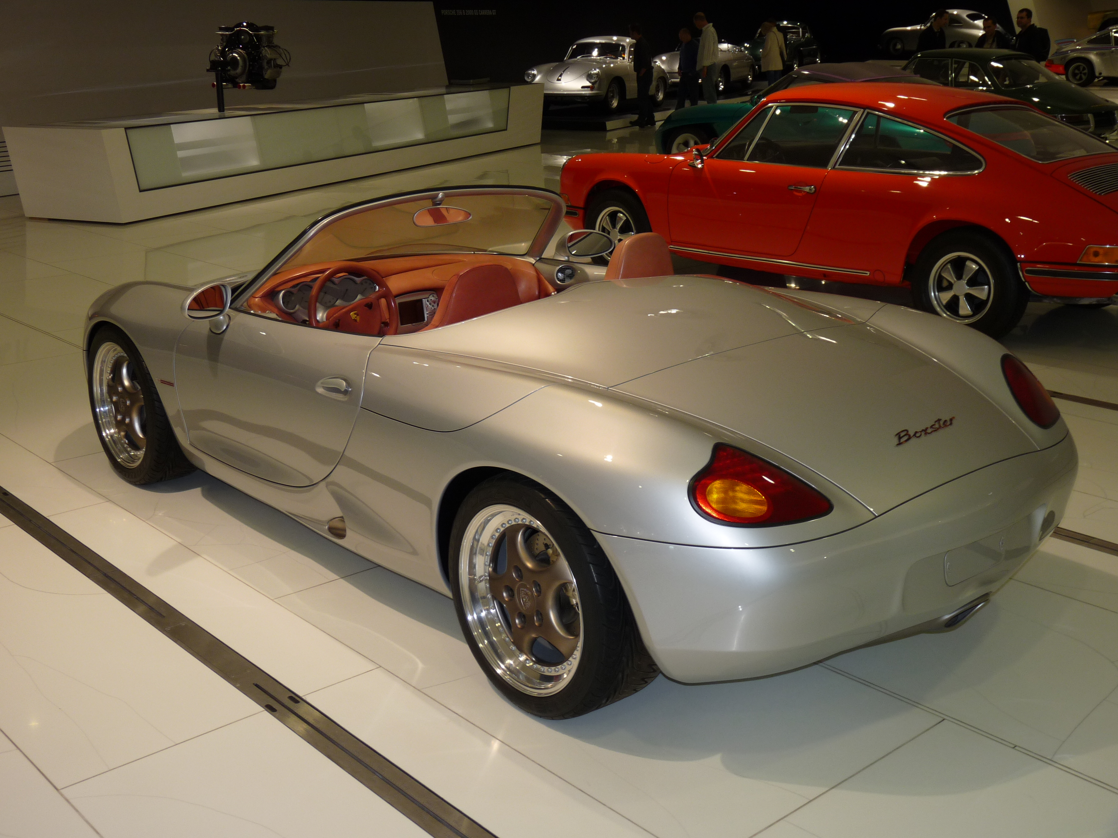 see filename for despcription - seen at PORSCHE MUSEUM in Stuttgart, Germany